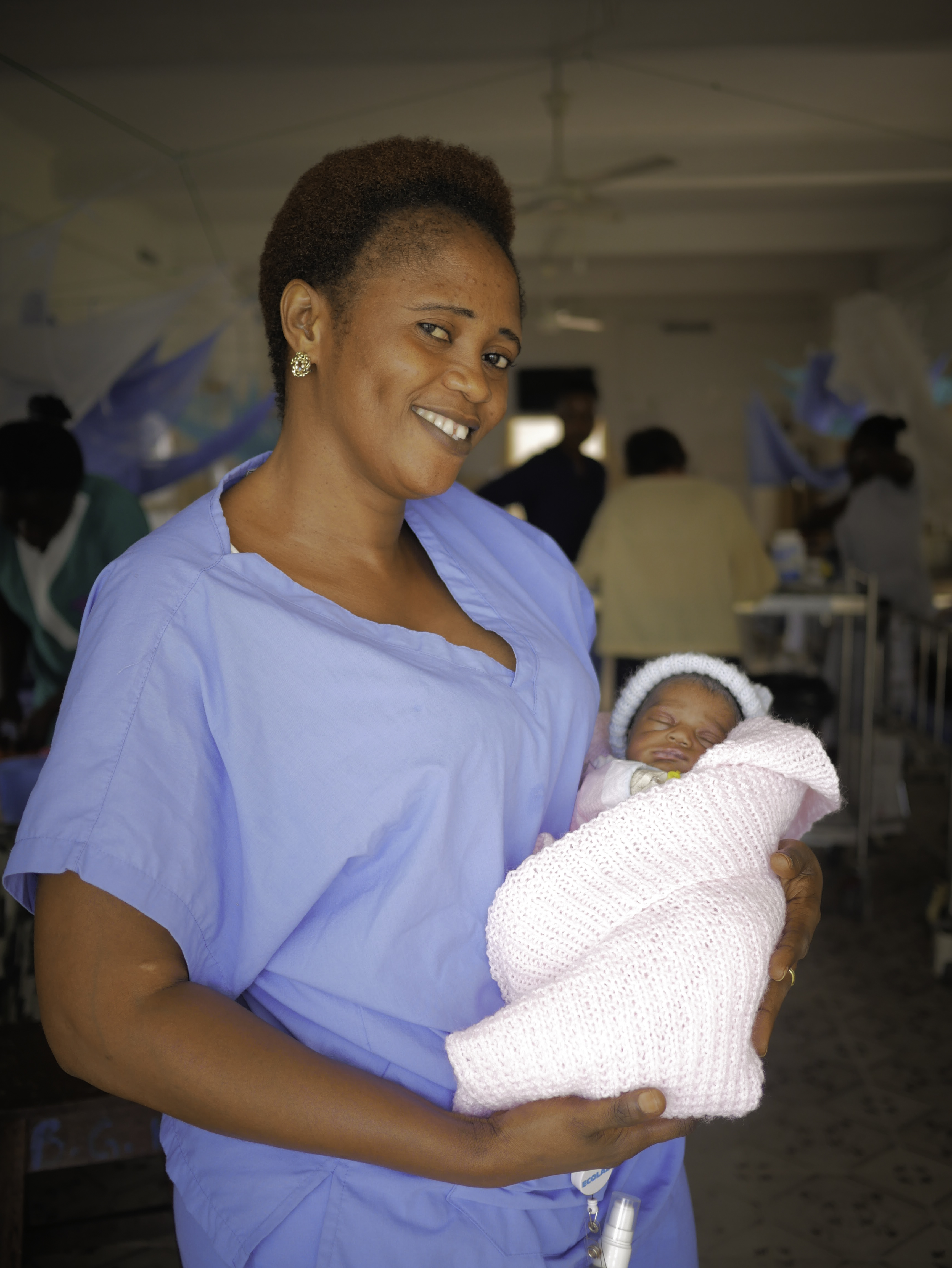 A nurse in rural Sierra Leone holds a baby who survived premature birth. This is an image of "African people at work" from Sierra Leone